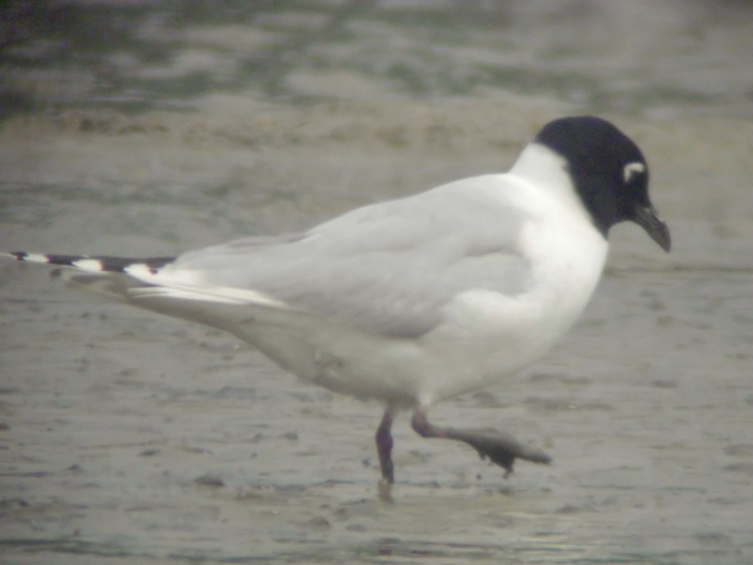 Saunders's Gull Chroicocephalus saundersi at the Mai Po wetlands, Hong Kong.